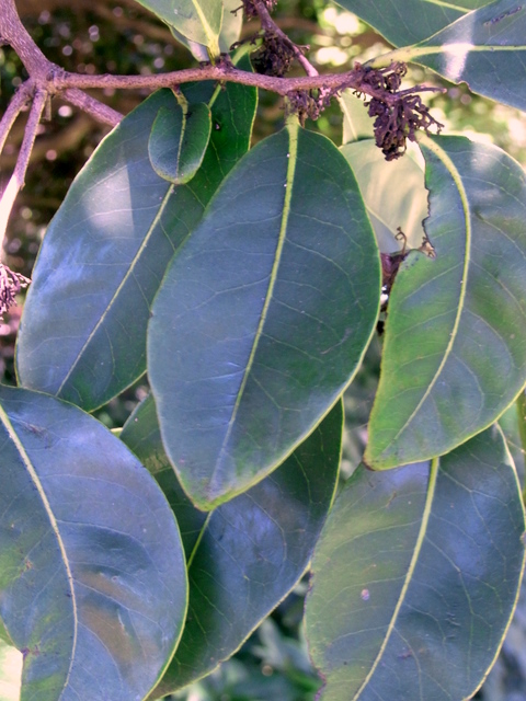 Diospyros fasciculosa RBG Sydney, Australia